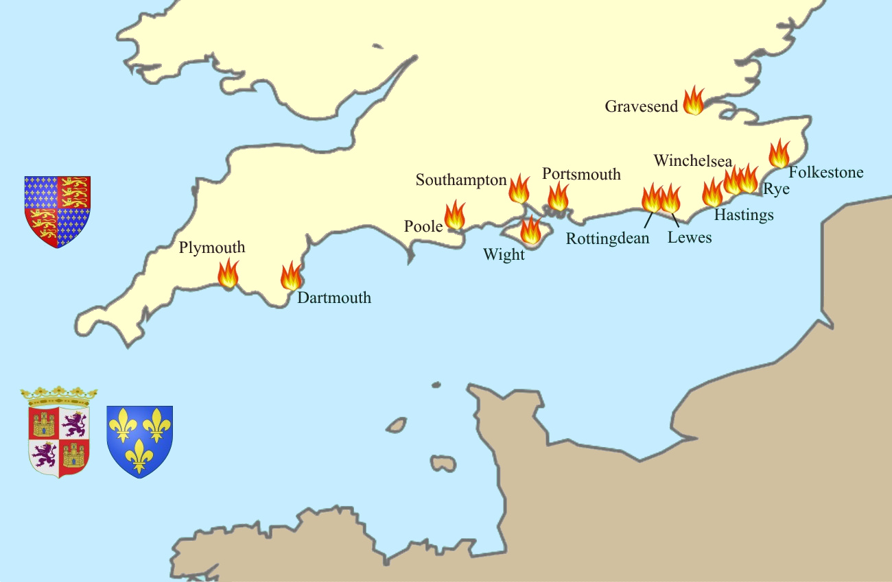 Main attacks on England by joint Castilian–French fleets, commanded by admirals Fernando Sánchez de Tovar and Jean de Vienne, between 1374 and 1380, during the Hundred Years' War.